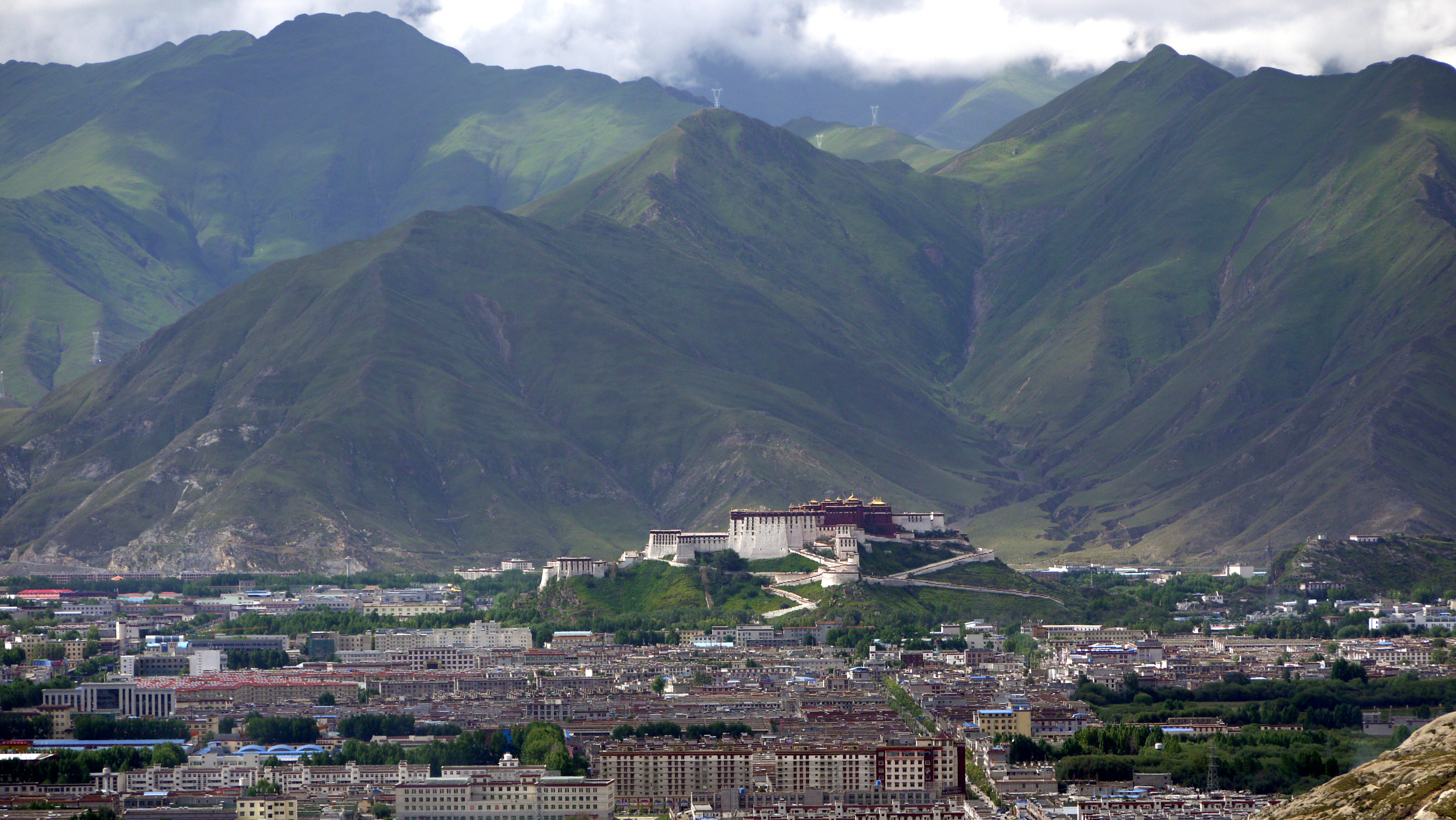 Lhasa is spread across the valley floor. The Potala Palace rises from the old city.